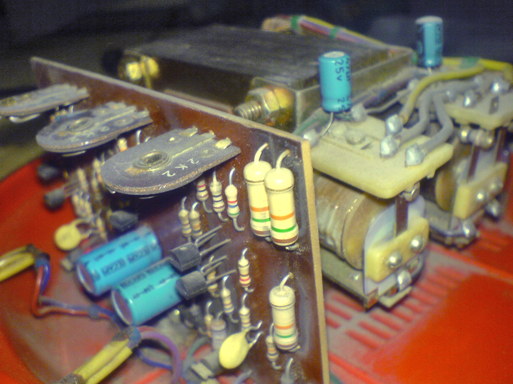 A voltage stabilizer using electromechanical relays for switching. (description from caption under original en.wikipedia usage)